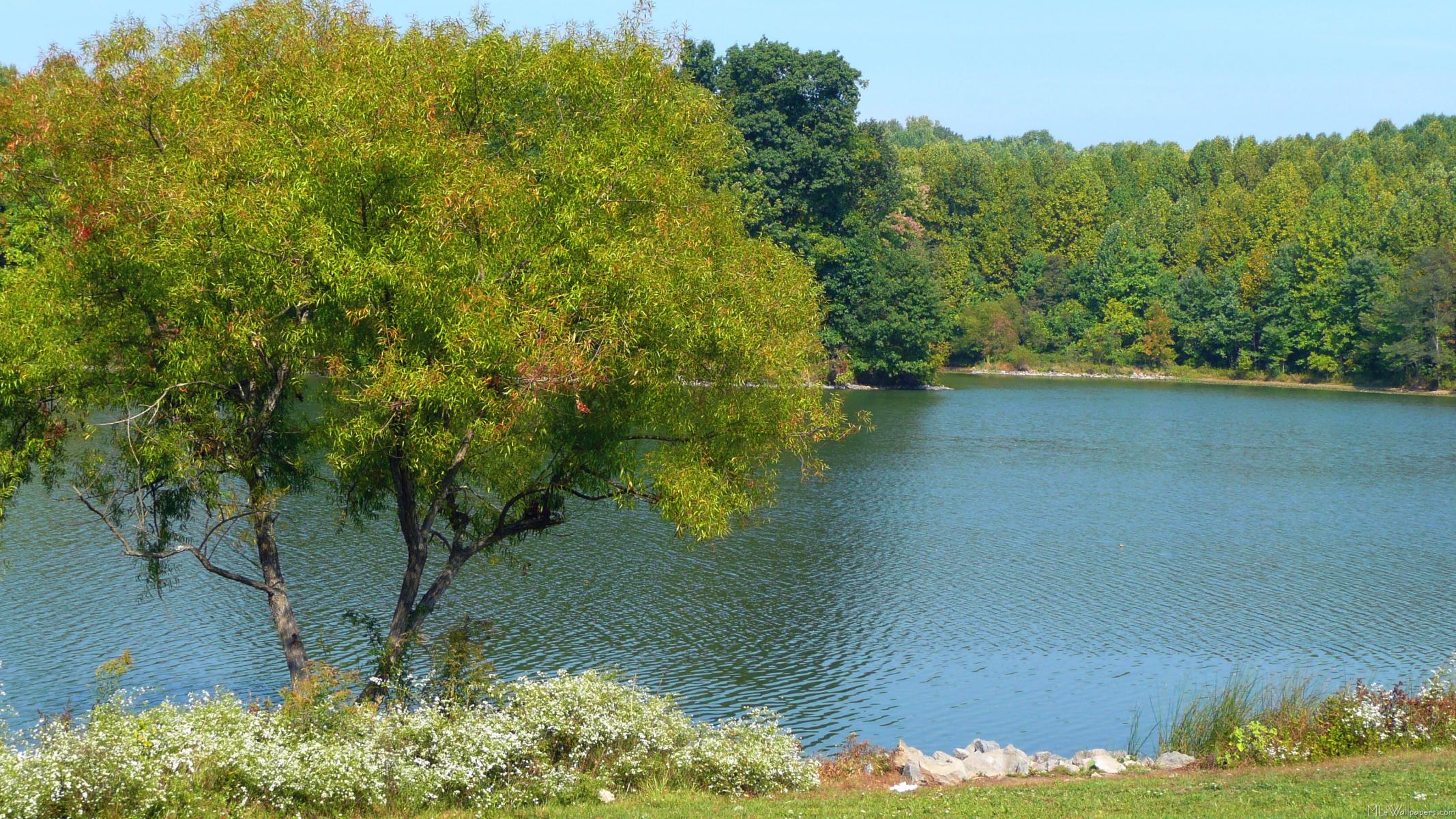 A picture of Centennial Lake (inside Centennial Park) in Howard County, Maryland.